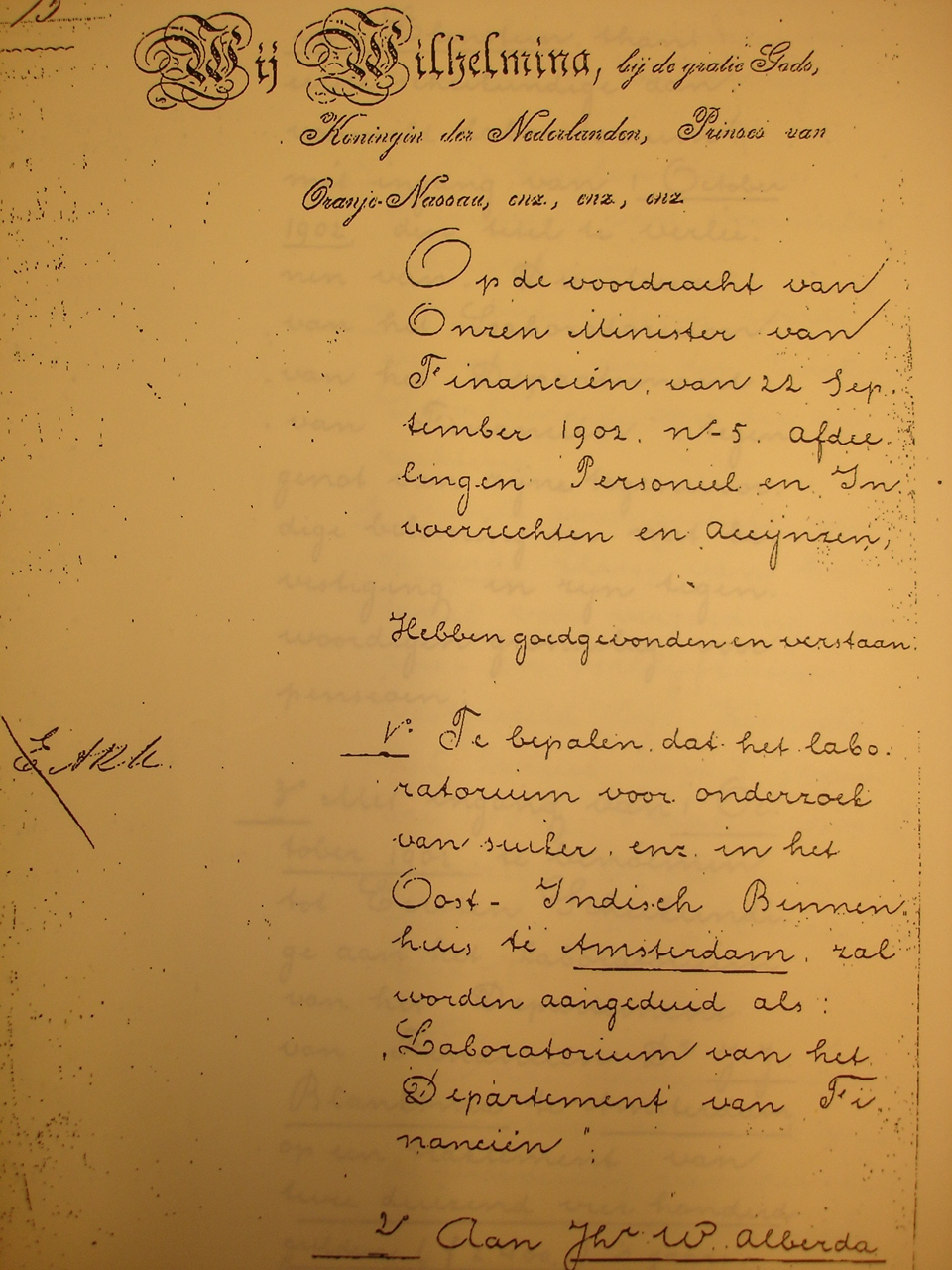 Royal decree of the Netherlands declaring that the laboratory for research of sugar etc., shall be renamed to the Laboratory of the Department of Finance.